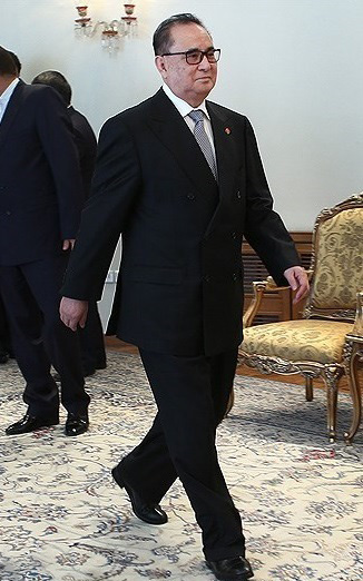 Ri Su-yong